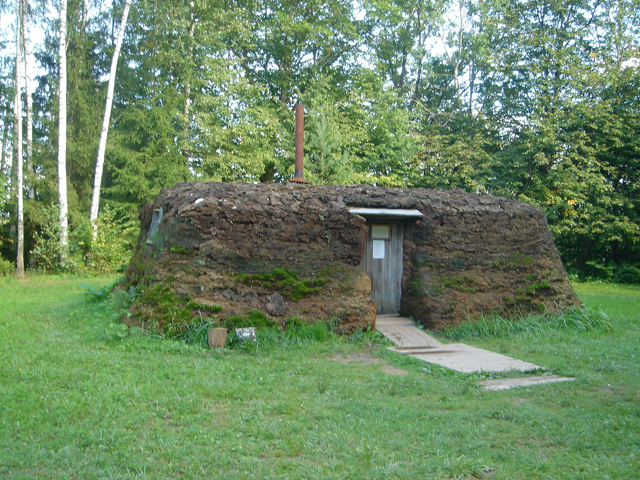 Jurta (a type of dwelling from Soviet GULAGS in Siberia) in Rumšiškės ethnographic museum, Lithuania